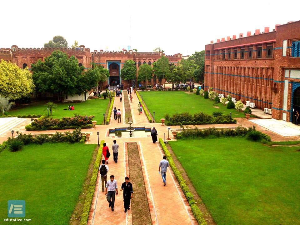 Fast university Lahore campus